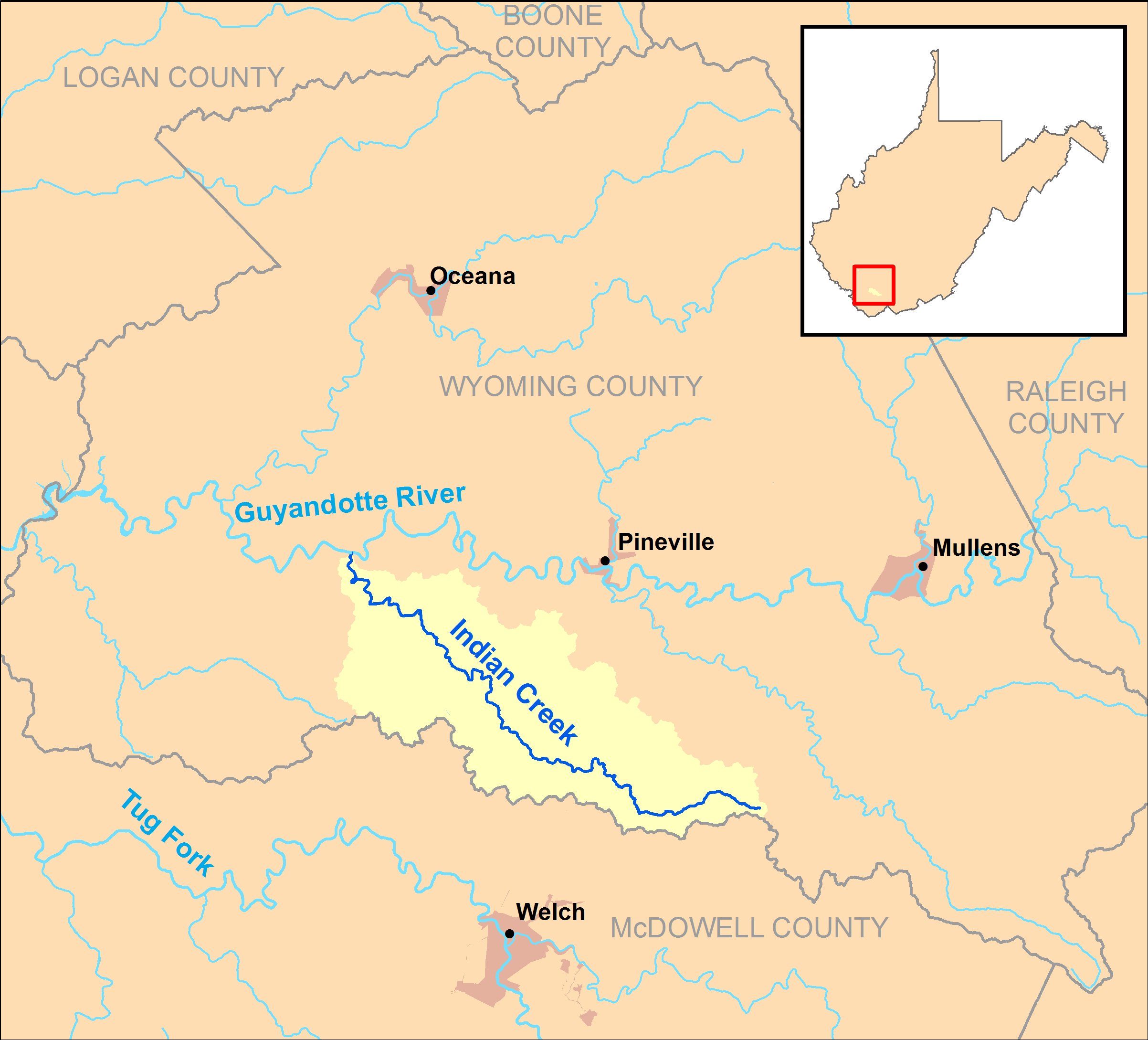 A map of Indian Creek and its watershed (USGS HUC-12 050701010305) in Wyoming County, West Virginia.